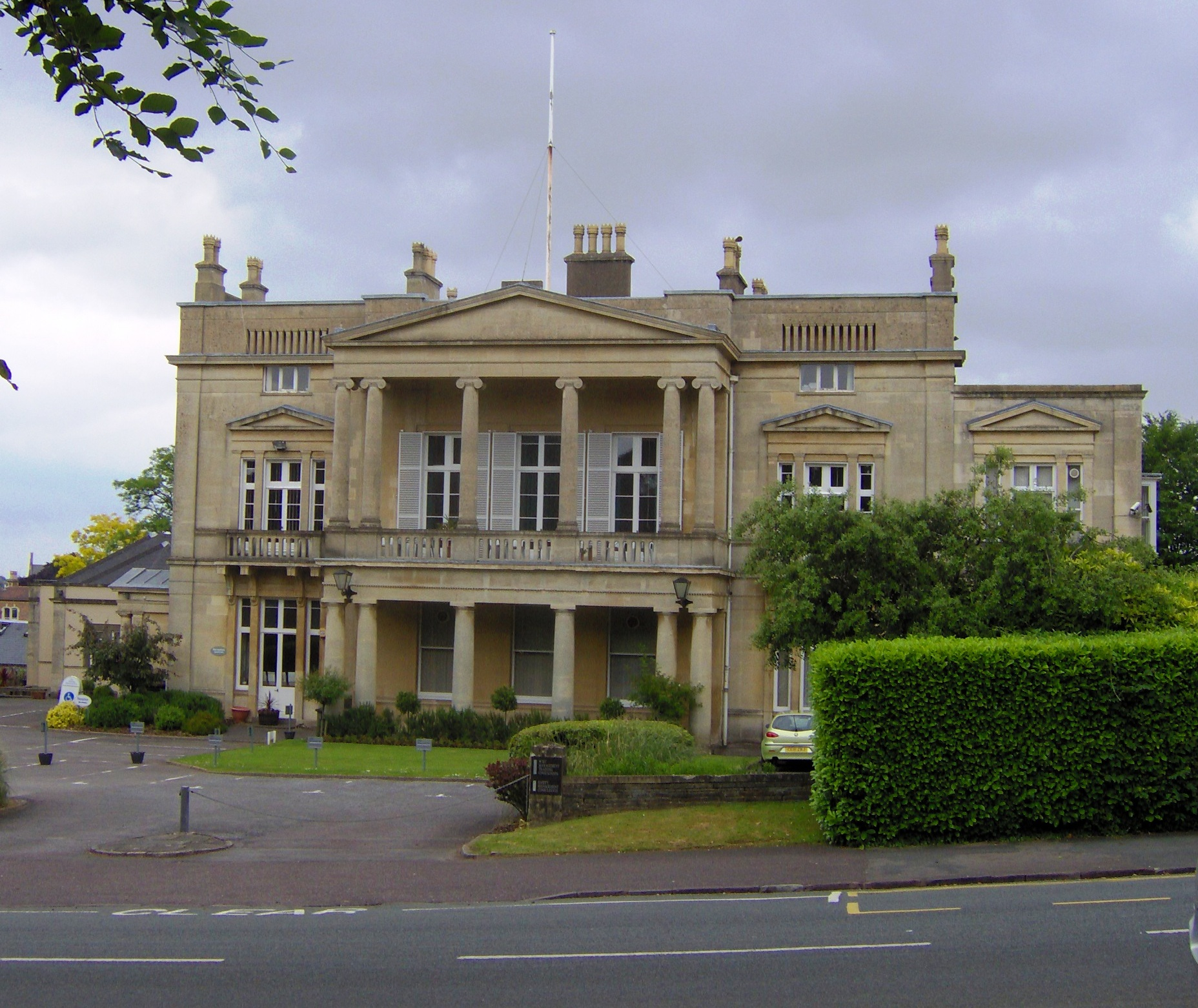 Engineers House, The Promeade, Clifton Down Bristol.